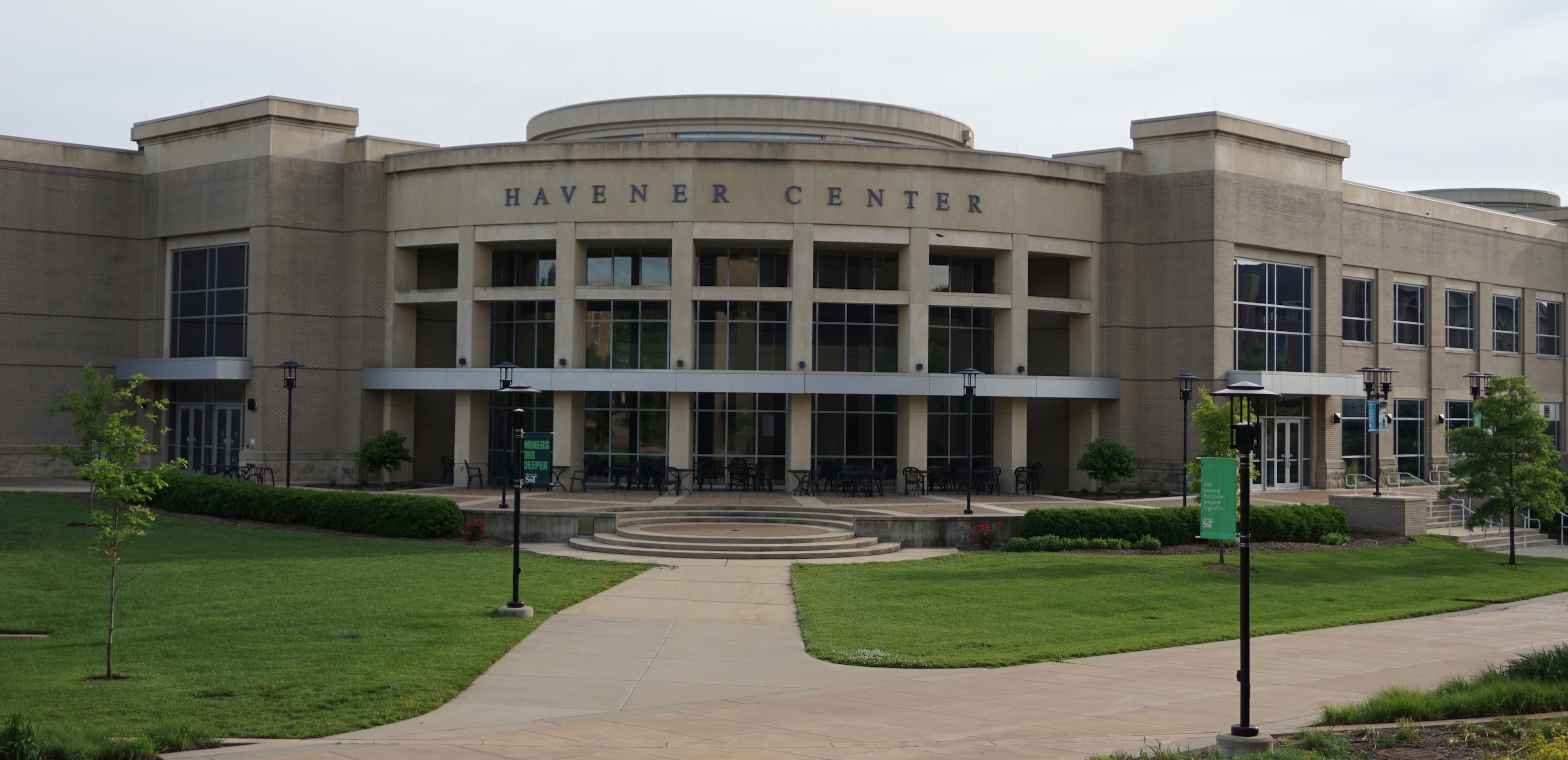 Havener Student Center at Missouri S&T, Rolla, Missouri